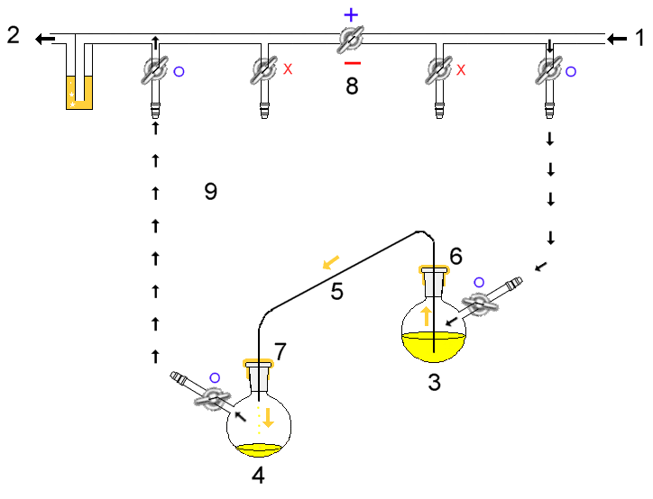 Air sensitive cannula - no bleed valve 1: Pressure in (gas in) 2: Pressure out (oil bubbler orange) 3: Higher flask with transfer liquid (yellow) to transfer 4: Lower receiving flask/transfered liquid (yellow) 5: Liquid transfer cannula 6: Septum (orange) on transfer flask 7: Septum (orange) on receiving flask 8: Pressure-control regulator/stopcock 9: Tubing/ gas-line (not shown for clarity, arrows show connectivity) O = Open stopcock; X = Closed stopcock; black-arrow = Gas flow direction, orange arrow = Liquid flow direction Note: As the Pressure-control regulator/stopcock (8) is gradually cloased, pressure gradually builts up in flask 3 containing the fluid to be transferred.